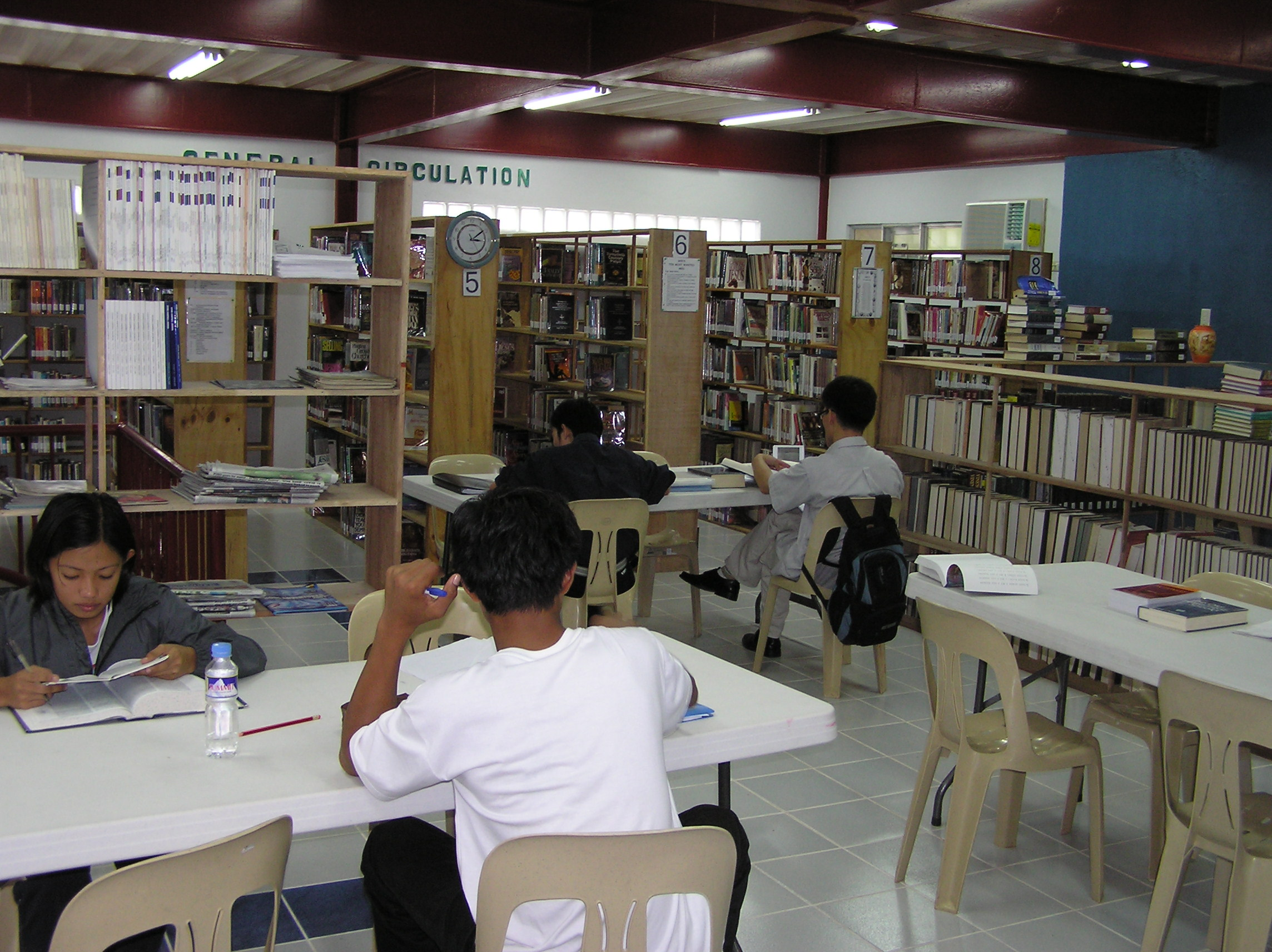 Philippine College of Ministry, Baguio City, Philippines. Main floor of Library. More than 14,000 volumes--10,000 titles.